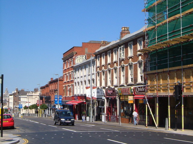 Hardman Street, Liverpool. Seen from the junction with Hope Street.